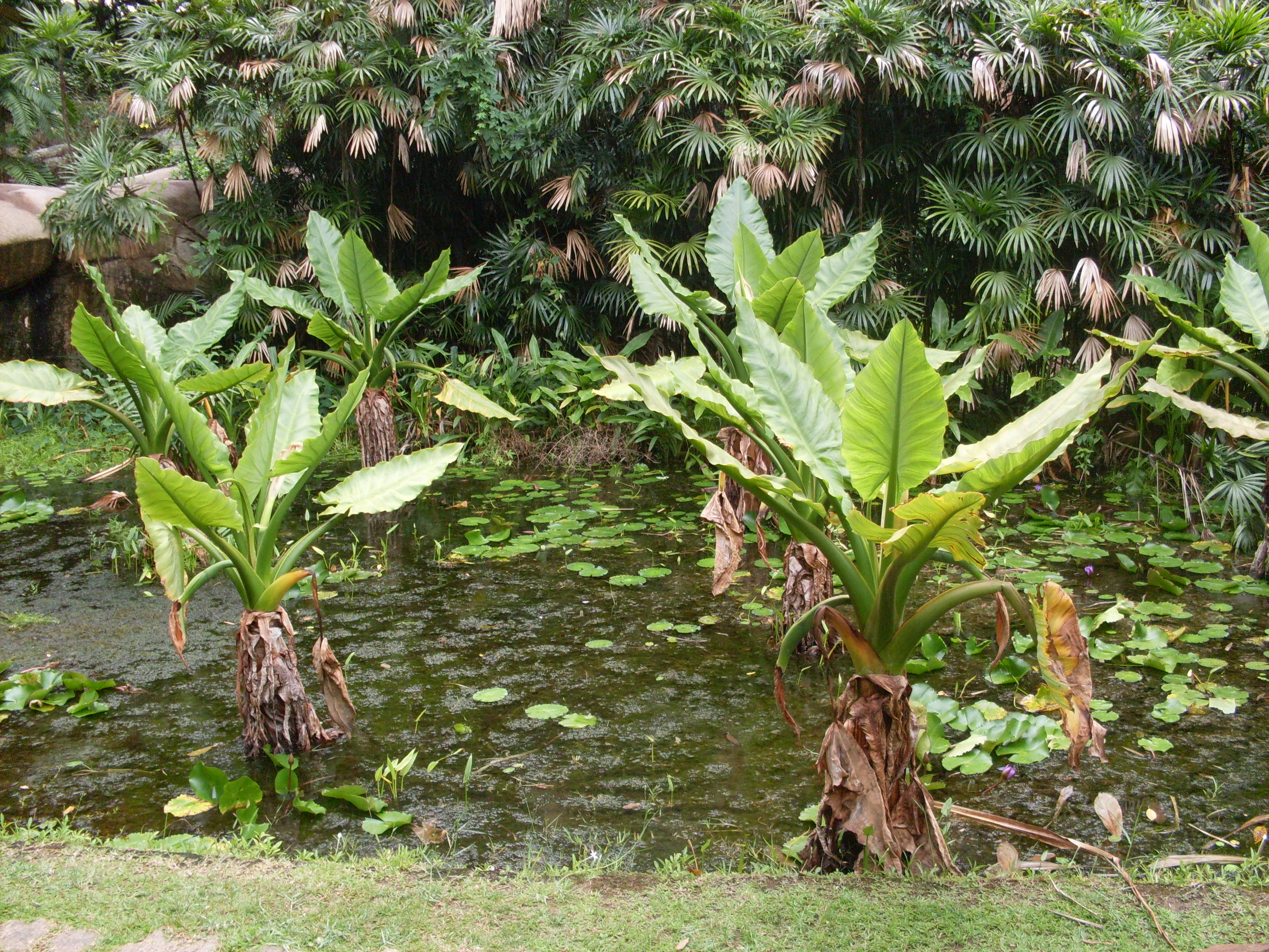 Typhonodorum lindleyanum. Victoria Botanical Garden, Seychelles